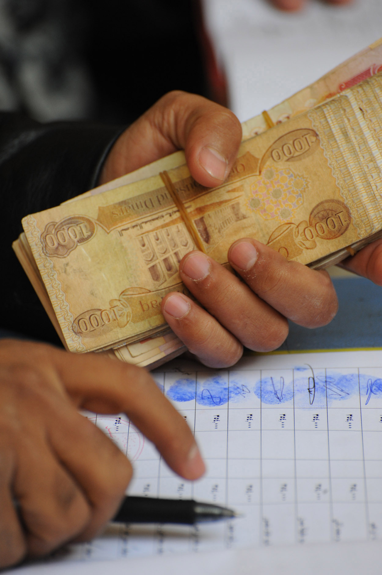 A government of Iraq official holds a stack of Iraqi dinars during a Sons of Iraq payment event on Jan. 18 at Joint Security Station Beladiyat in the New Baghdad District of eastern Baghdad.